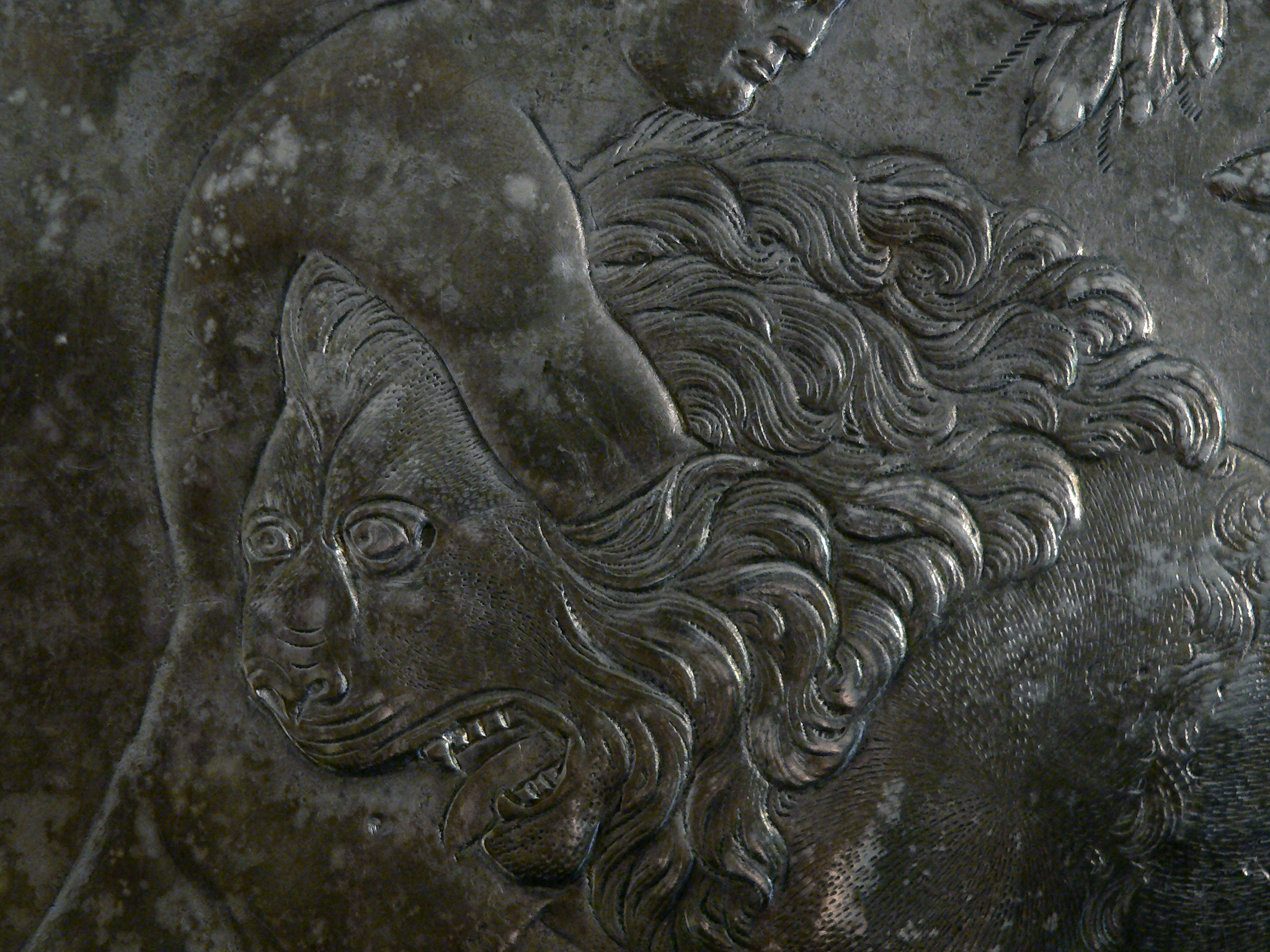 Heracles fighting the Nemean Lion. Silver missorium, 6th century CE (?).